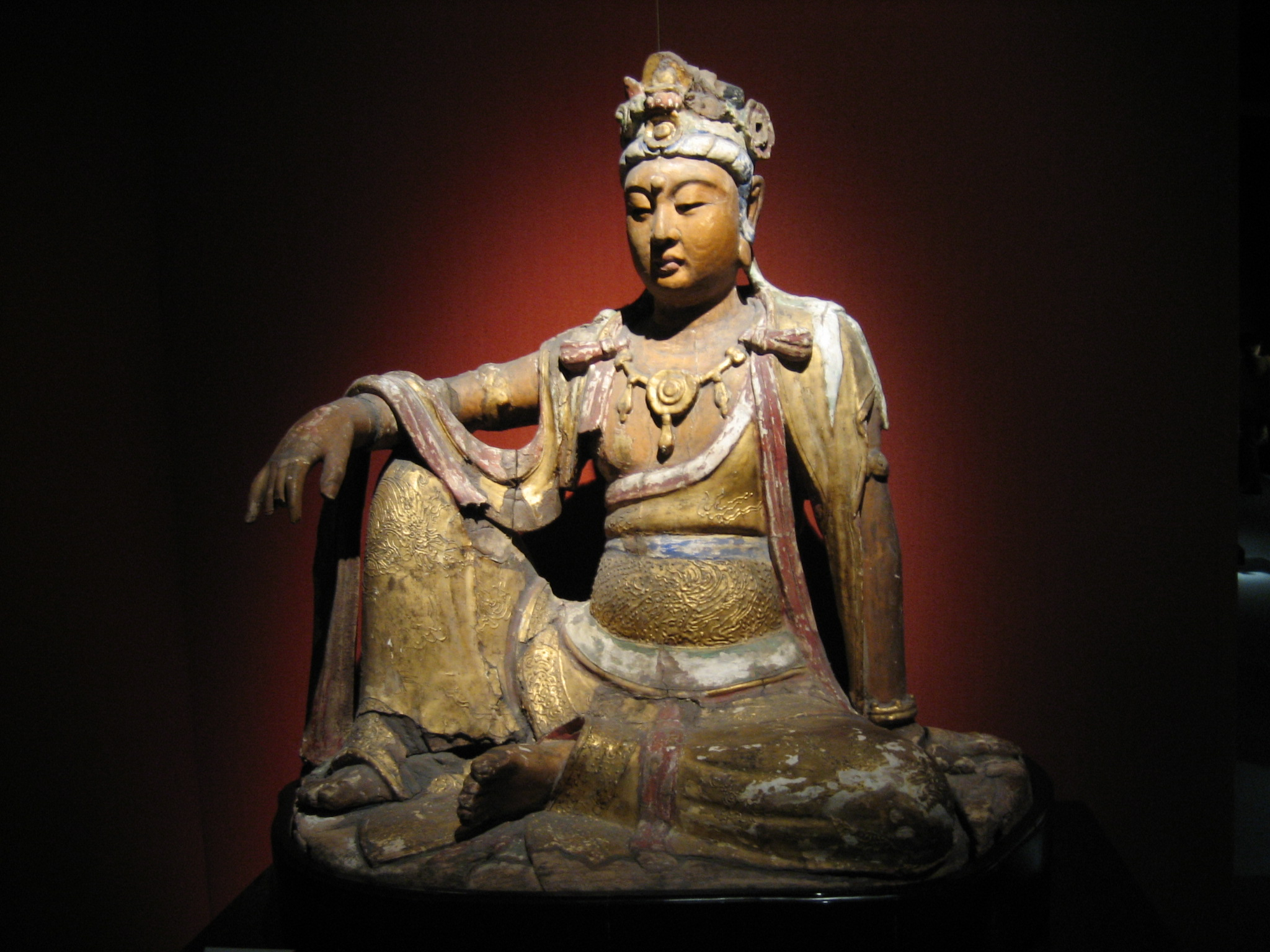 A wooden gilded statue of the bodhisattva Avalokiteśvara from the Chinese Song Dynasty (960-1279), from the Shanghai Museum.